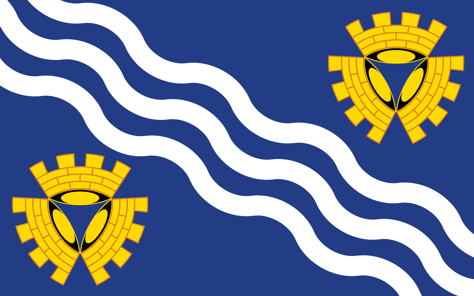 The County Flag of Merseyside. The waves represent the River Mersey; the six golden mural crowns represent the six County Boroughs—Birkenhead, Bootle, Liverpool, Southport, St Helens, and Wallasey—that went into the county of Merseyside upon its creation.